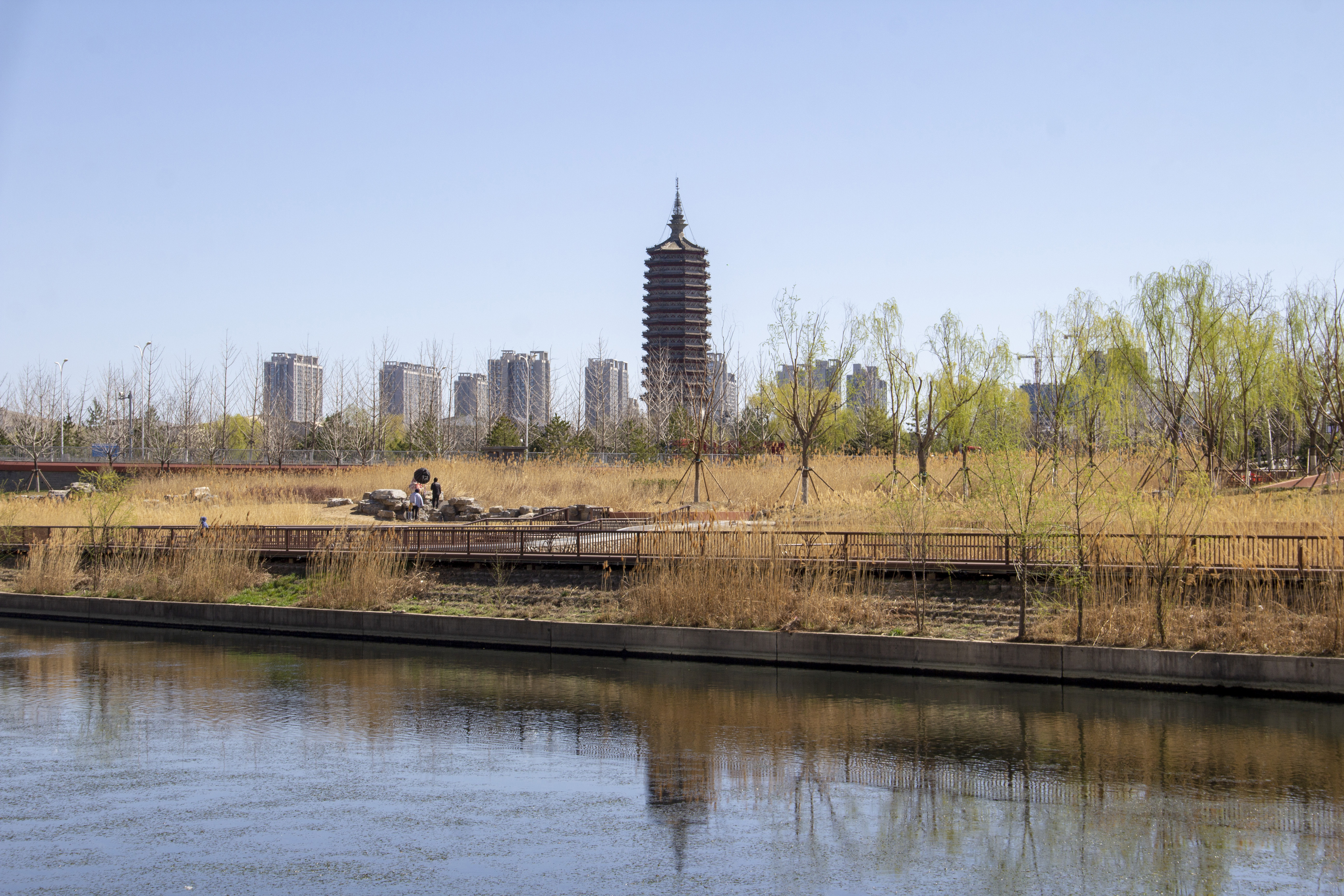 Randeng Pagoda